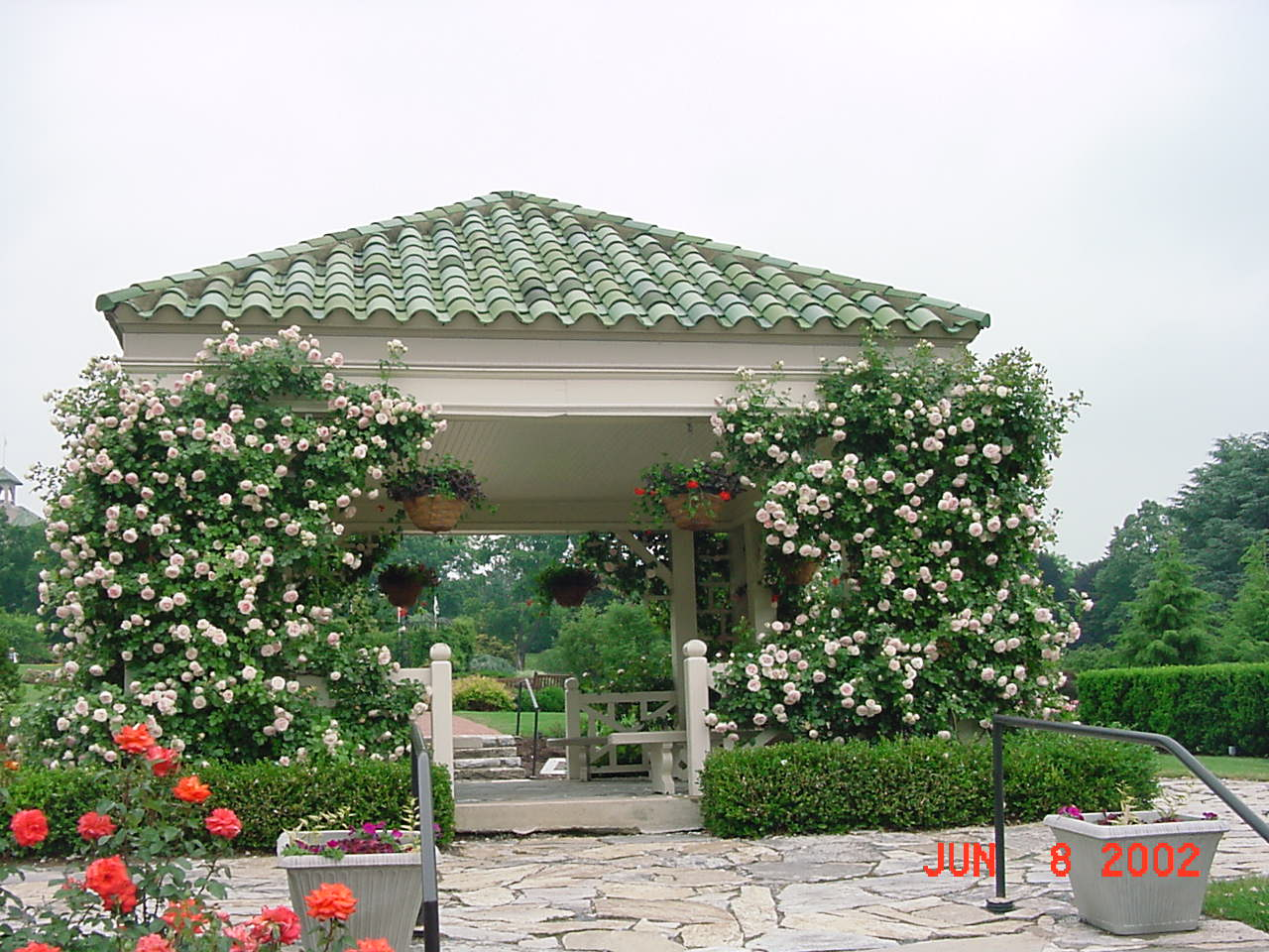 The Rose Covered Gazebo in Hershey Gardens, Hershey Pennsylvania.